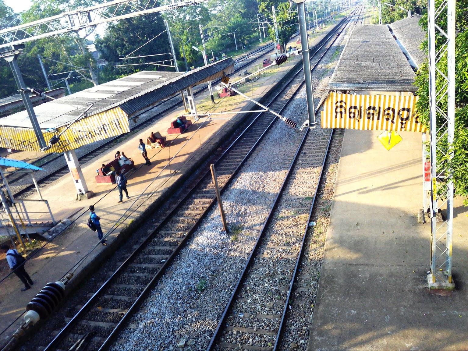 This is the Picture of Nirakarpur railway station